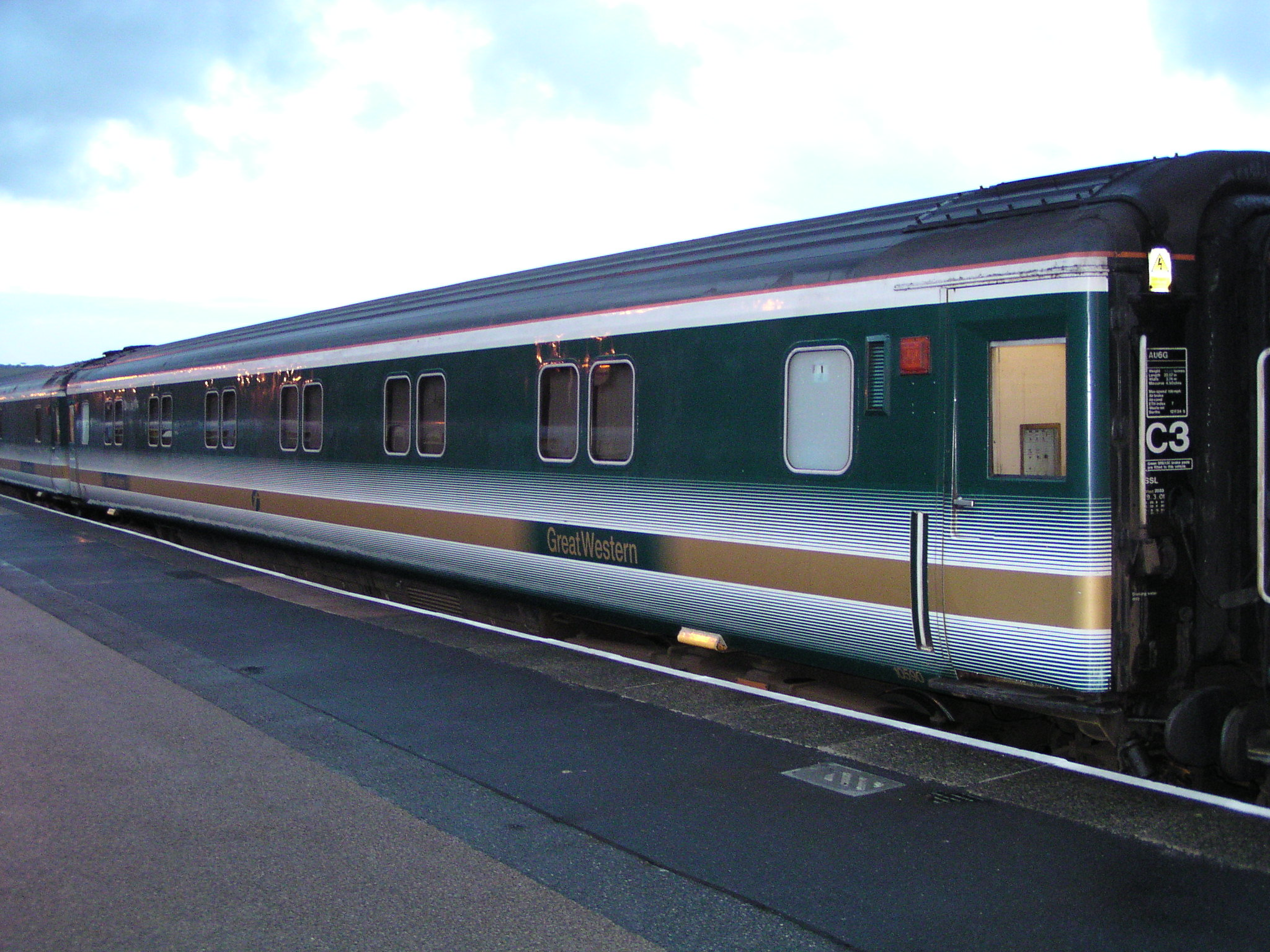 British Rail Mark 3 SLEP, no. 10590, at Penzance on 29 August 2003. This vehicle is operated by First Great Western. Image by Phil Scott (Our Phellap)